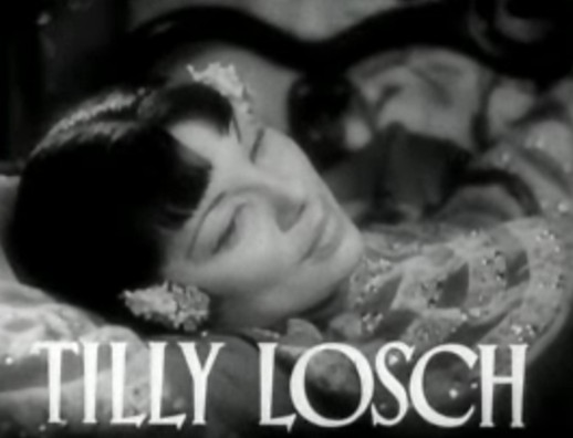 Cropped screenshot of Tilly Losch from the trailer for the film The Good Earth. Cropped further from Image:Tilly Losch in The Good Earth trailer.jpg